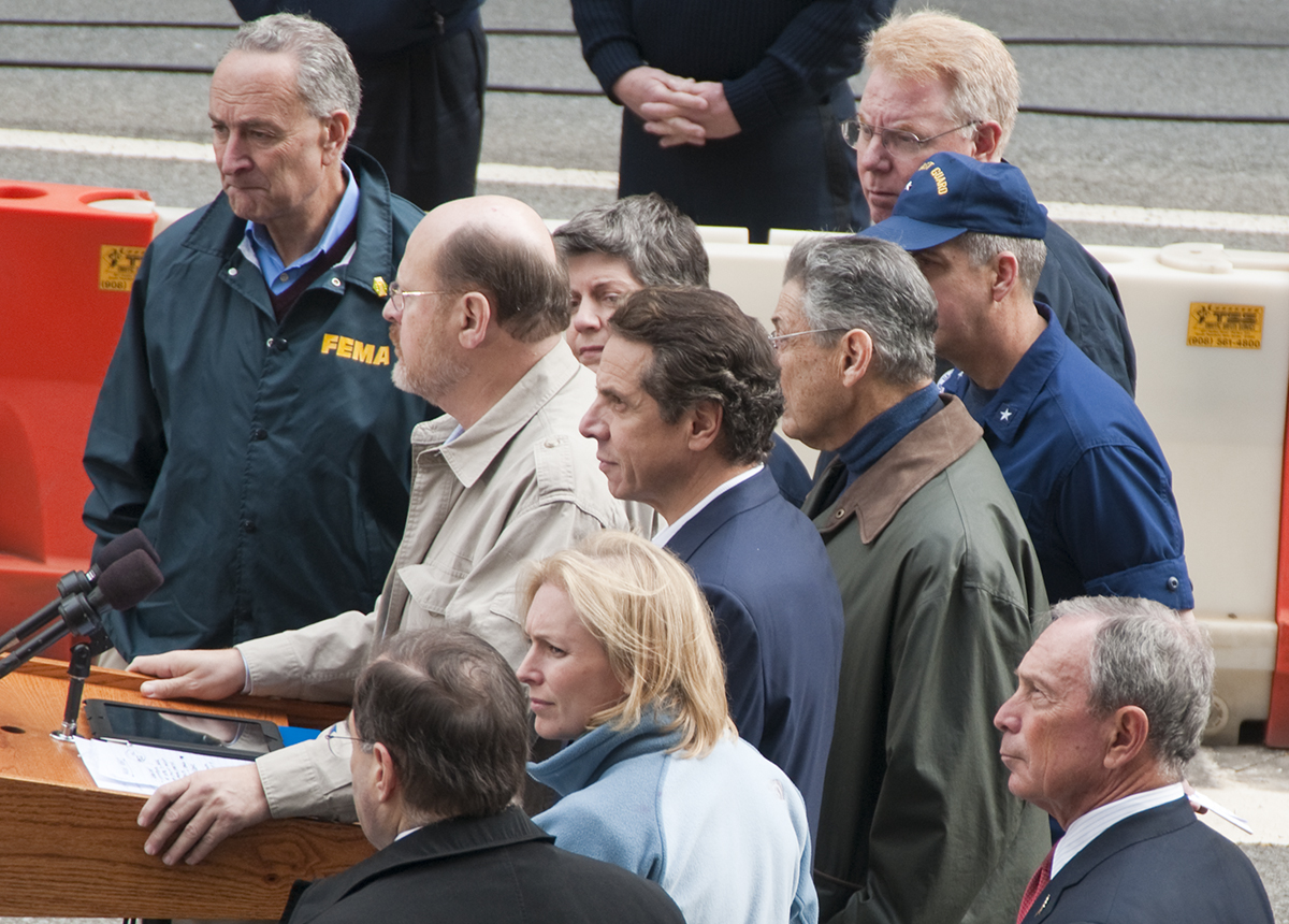 Hugh L. Carey Tunnel Hurricane Sandy MTA press briefing. Elected officials (upper left to lower right): US Sen. Charles Schumer, former MTA Chairman Joe Lhota, former US Department of Homeland Security Secretary Janet Napolitano, New York state Governor Andrew Cuomo, US Sen. Kristen Gillibrand, former New York State Assembly Speaker Sheldon Silver, and former New York City Mayor Michael Bloomberg. Photo courtesy of Jay Fine.